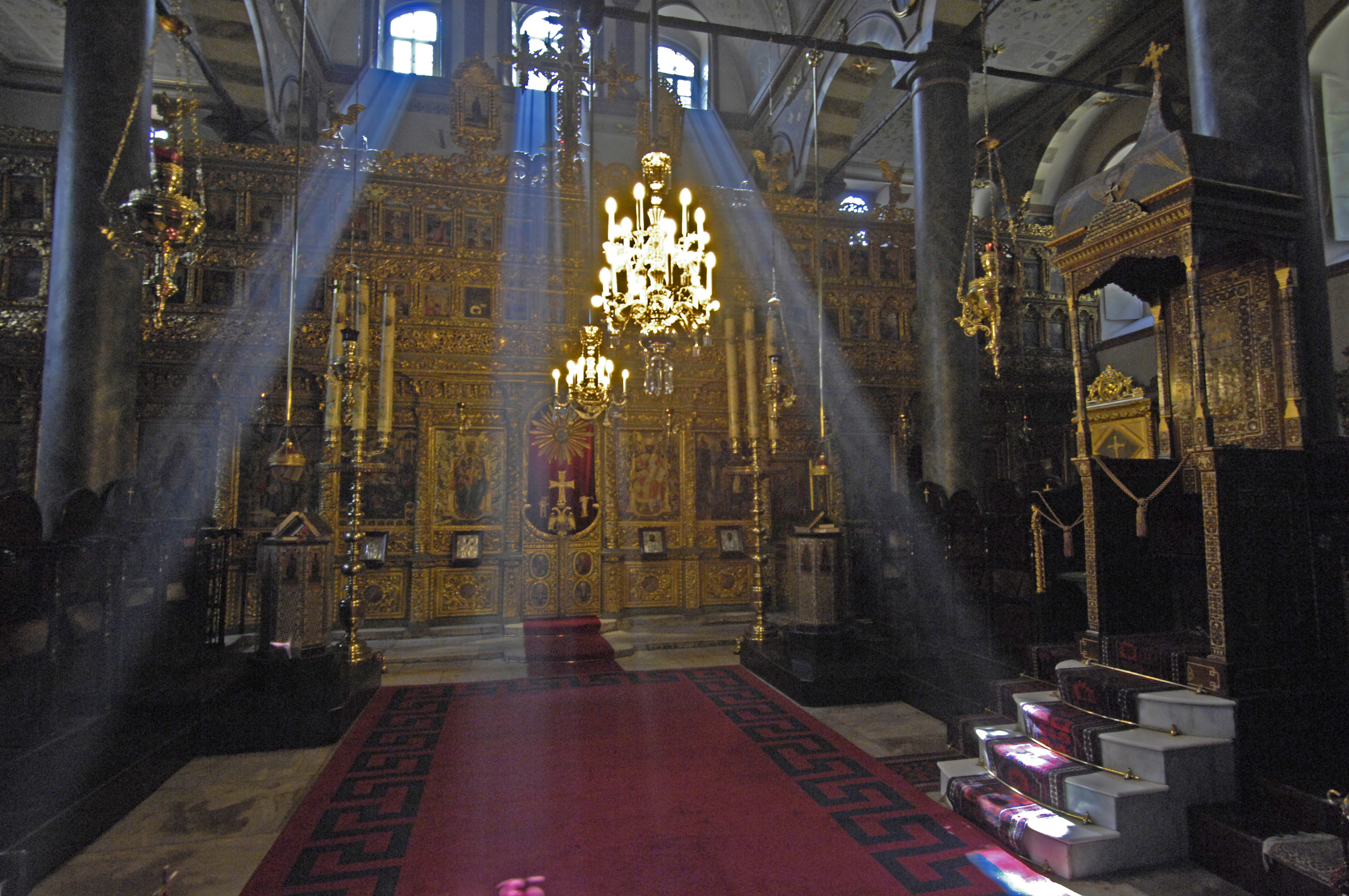 The complex is the Ecumenical Patriarchate of Constantinople, several buildings face a square.